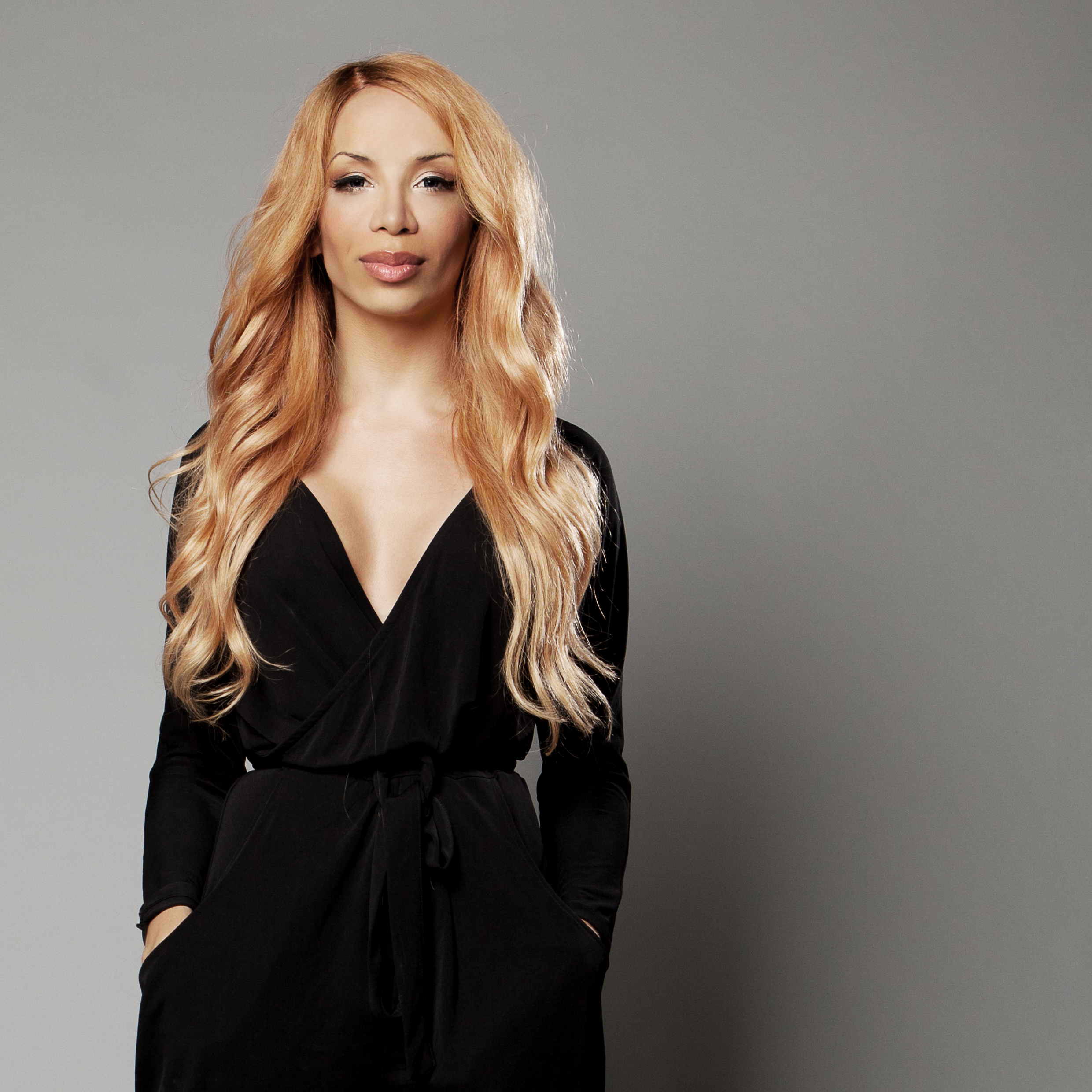 A studio portrait from Lorielle London made by Oliver Reetz.